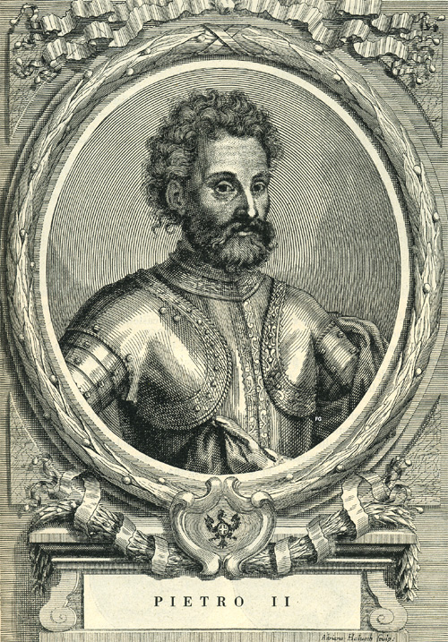 Pietro II, count of Savoia (1203-1268)